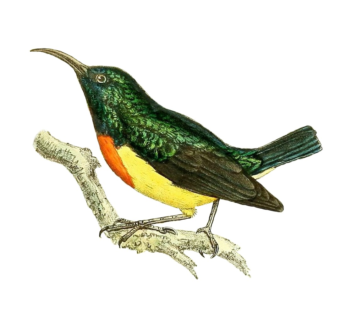 Nectarinia coquereli = Cinnyris coquerellii (Mayotte Sunbird)